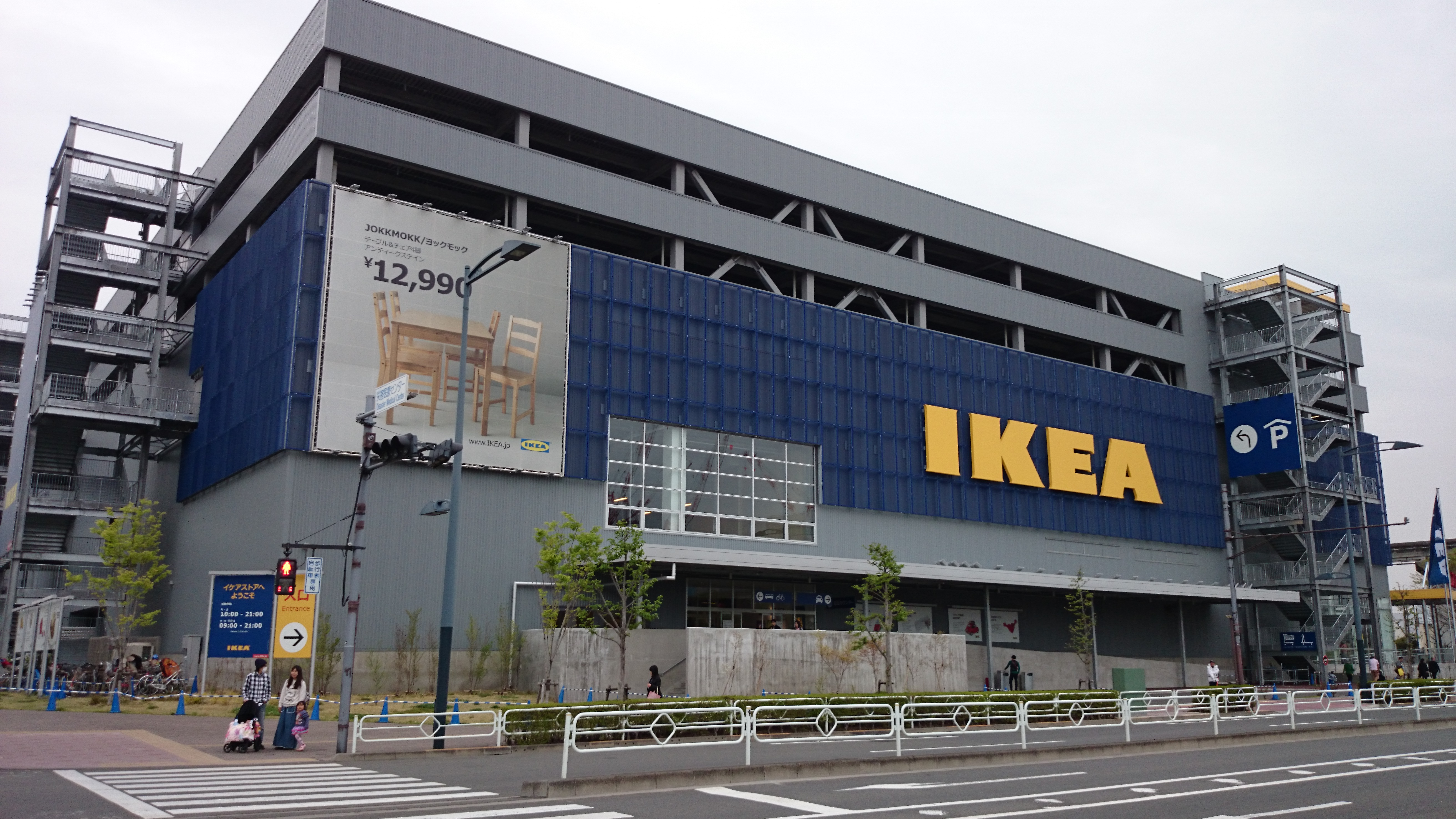 IKEA Tachikawa